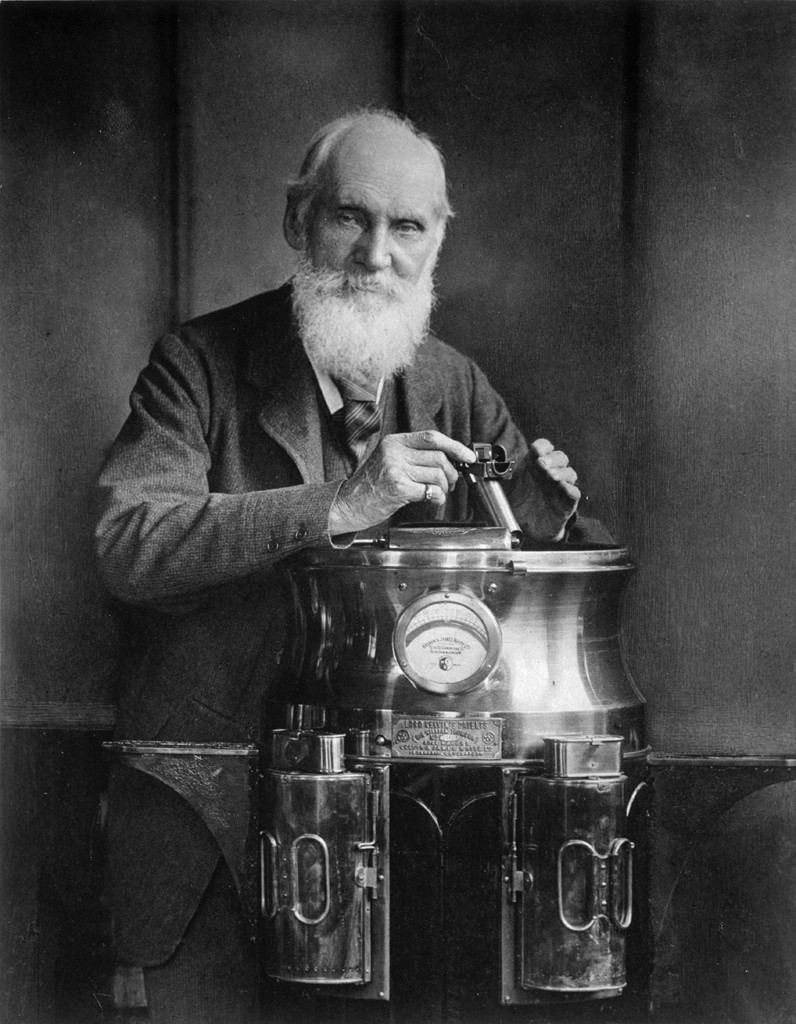 T. & R. Annan & Sons Accession no. PGP 230.1 Medium Carbon print Size 19.00 x 14.70 cm Credit Purchased 1933 For more information please select here